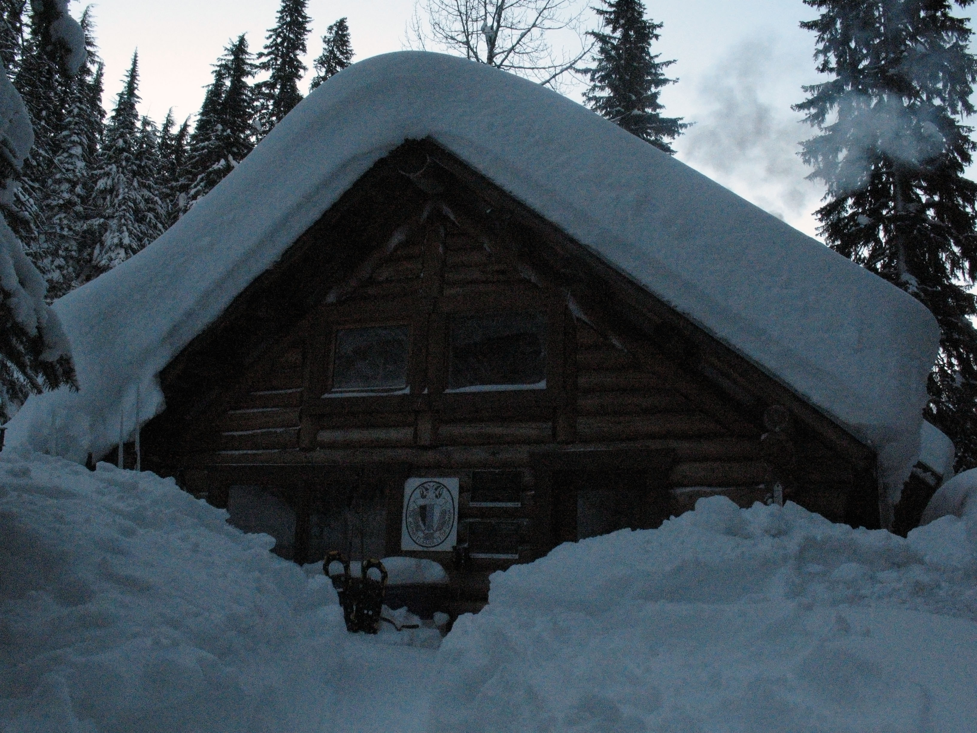 Picture I took while staying at the Wheeler Hut on a winter trip.